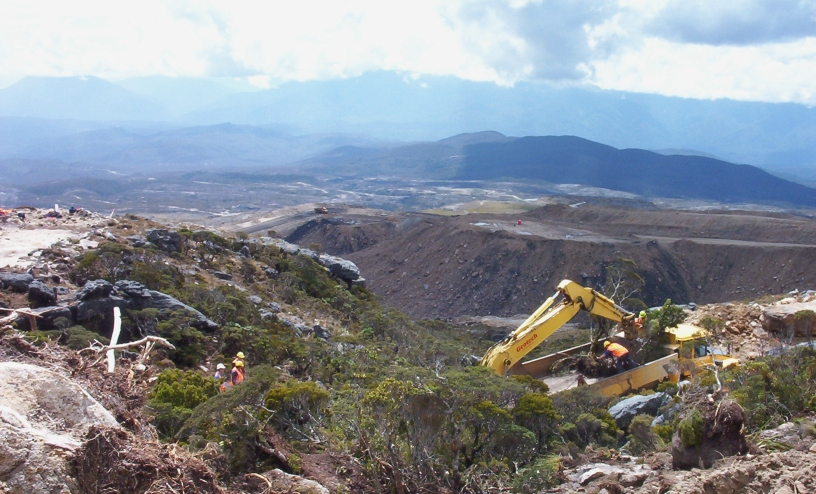 Photo showing part of Stockton Opencast Mine in the South Island of New Zealand, taken by the uploading user on January 12th 2007.